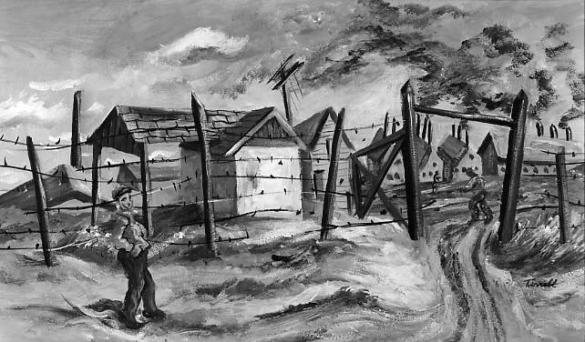 Elizabeth Terrell (American, 1908–1993), ca. 1939 Gouache on paper; H. 12-7/8, W. 20-1/8 inches (32.7 x 51.1 cm.)